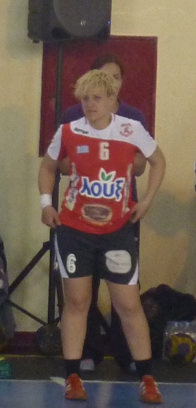 Greek hanball player Evgenia Karagiorga.